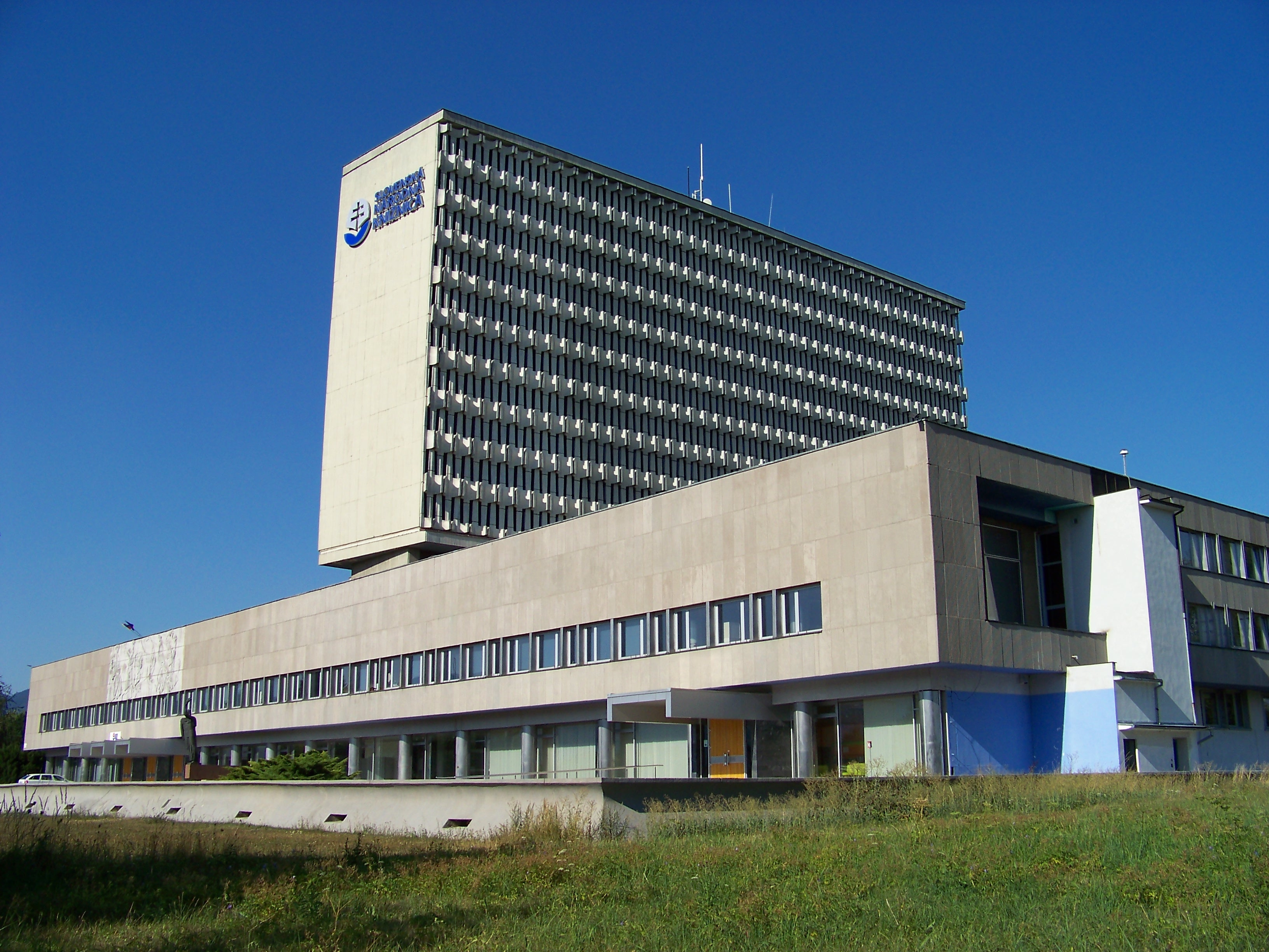 Slovak National Library, Martin, Slovakia